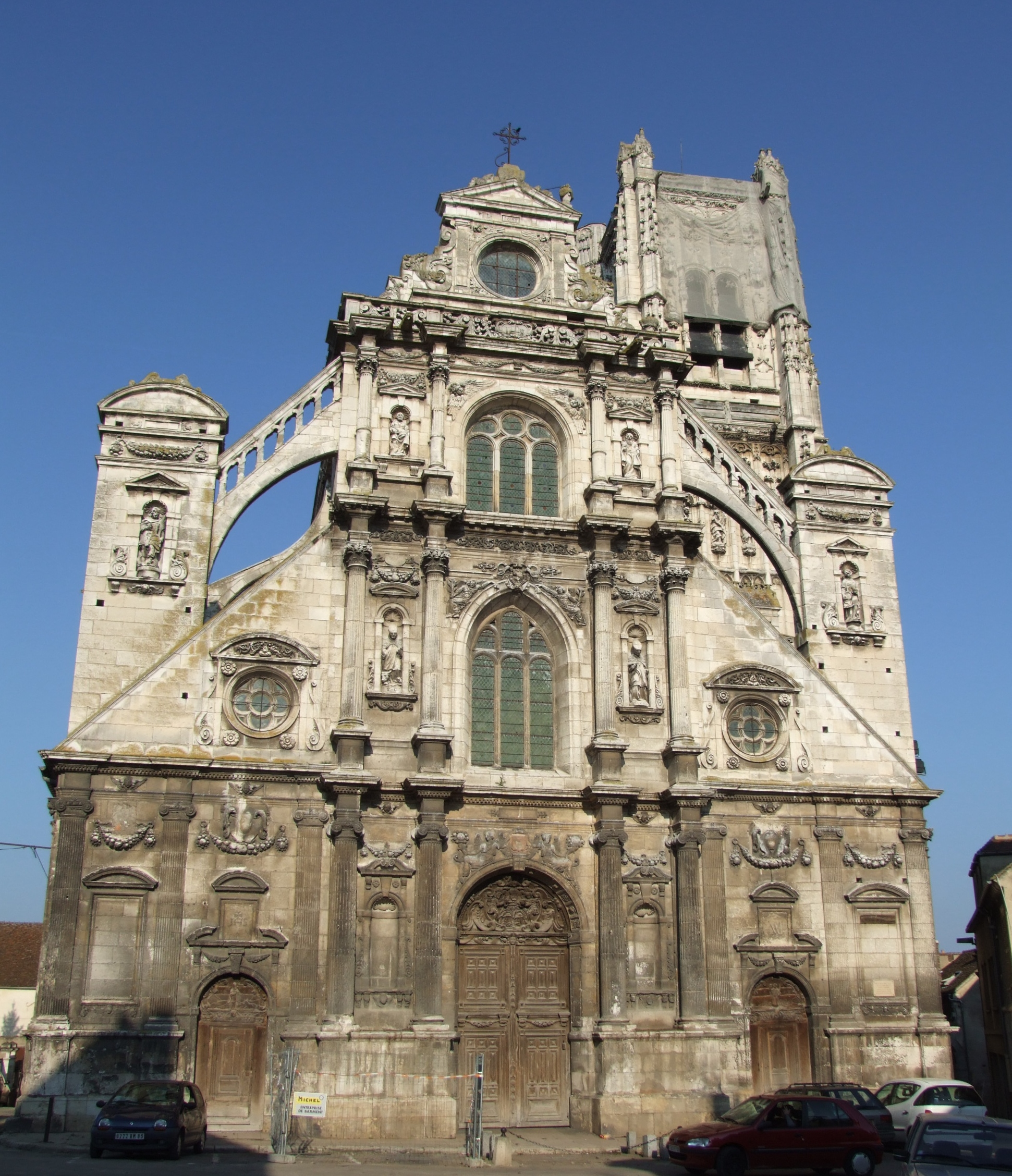 Saint-Pierre church, Auxerre, Burgundy, FRANCE